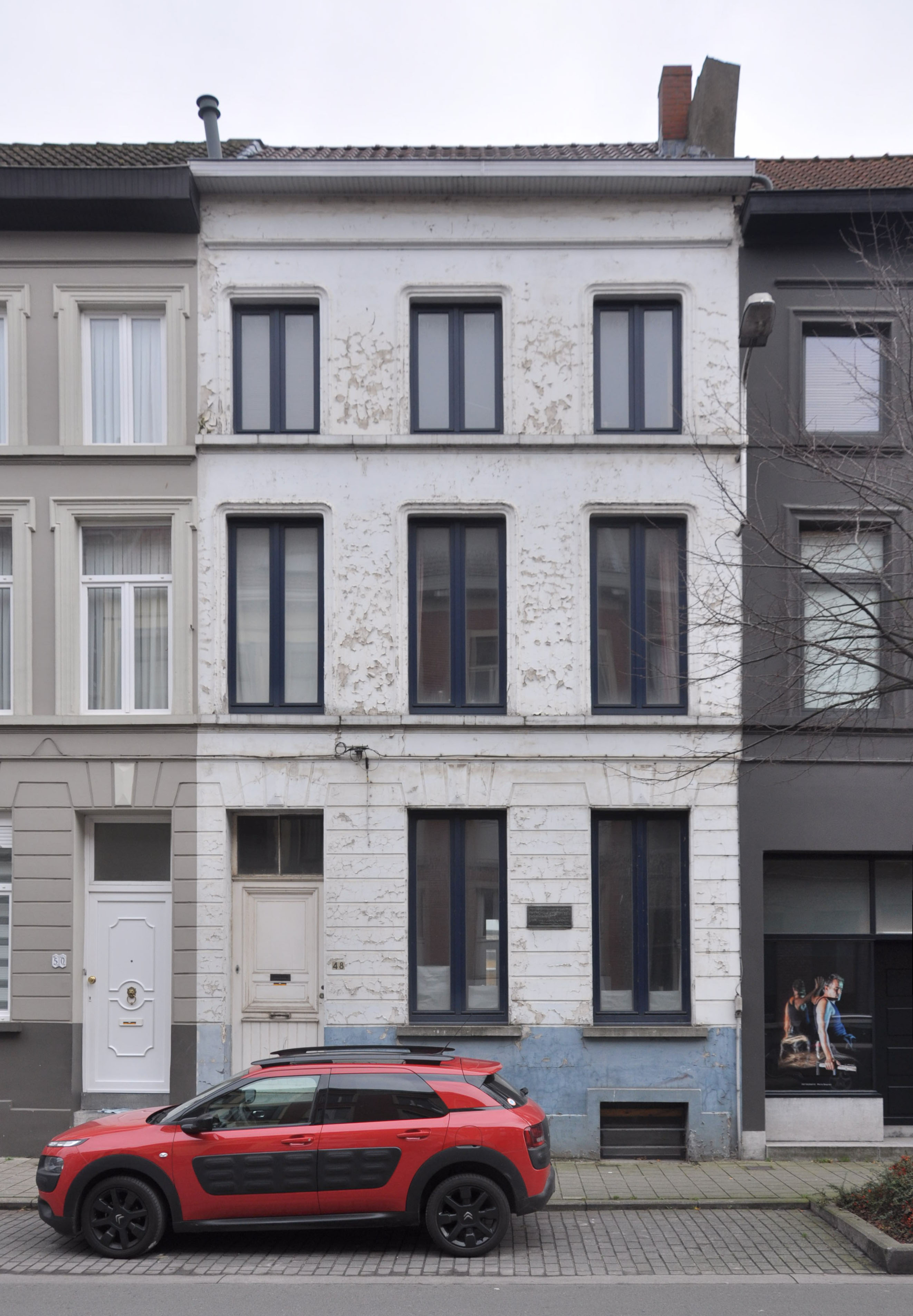 The house in Ghent, Ham street, 48, where Jean Ray was born.